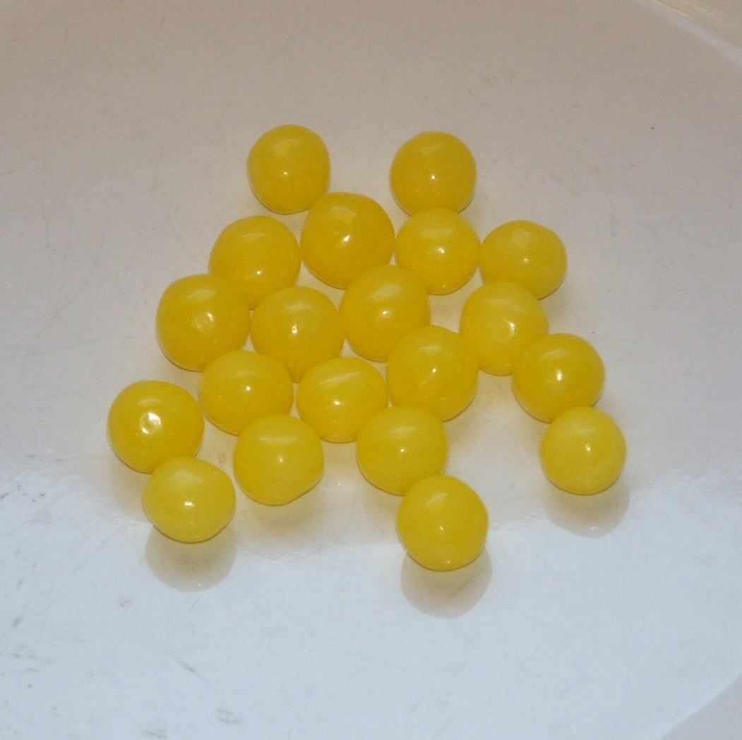 Lemonheads candy by Ferrara Pan Candy Co., Forest Park IL (USA)